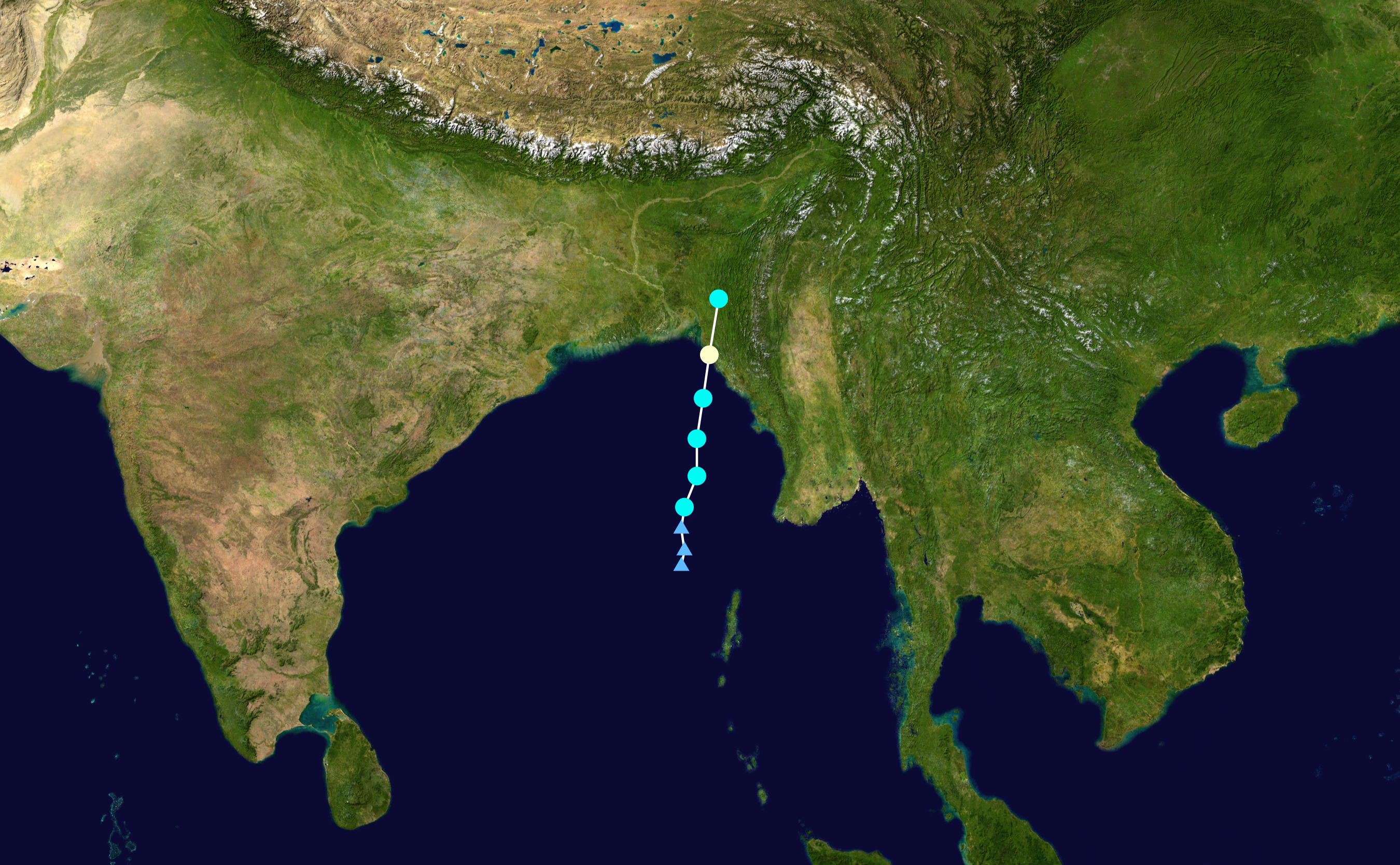 Track map of Cyclonic Storm Akash of the 2007 North Indian Ocean cyclone season. The points show the location of the storm at 6-hour intervals. The colour represents the storm's maximum sustained wind speeds as classified in the Saffir–Simpson scale (see below), and the shape of the data points represent the nature of the storm, according to the legend below. Saffir–Simpson scale Tropical depression≤38 mph≤62 km/h Category 3111–129 mph178–208 km/h Tropical storm39–73 mph63–118 km/h Category 4130–156 mph209–251 km/h Category 174–95 mph119–153 km/h Category 5≥157 mph≥252 km/h Category 296–110 mph154–177 km/h Unknown Storm type Tropical cyclone Subtropical cyclone Extratropical cyclone / Remnant low / Tropical disturbance / Monsoon depression